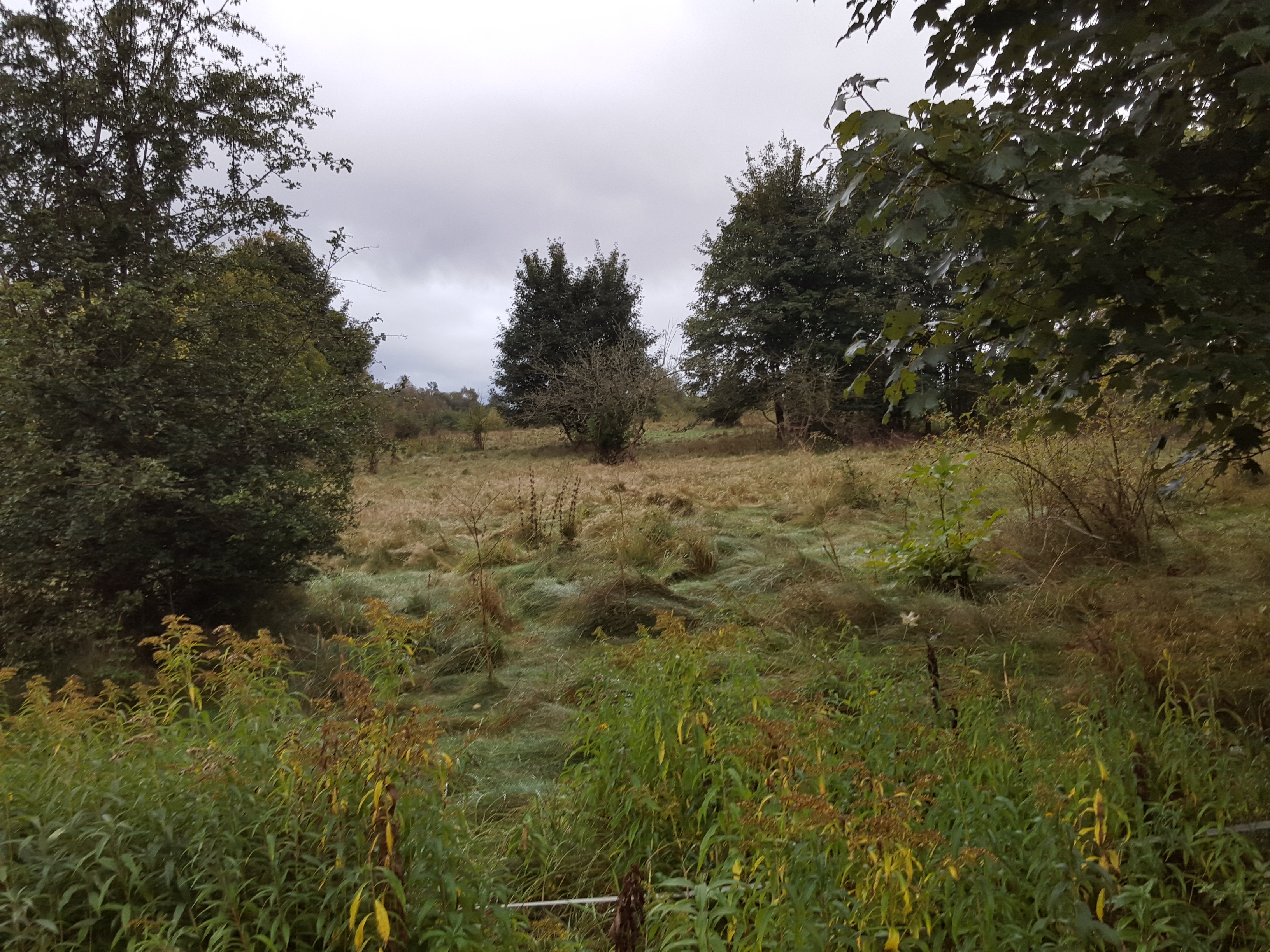 North of the area "Feddet" in Smør og Fedtmosen